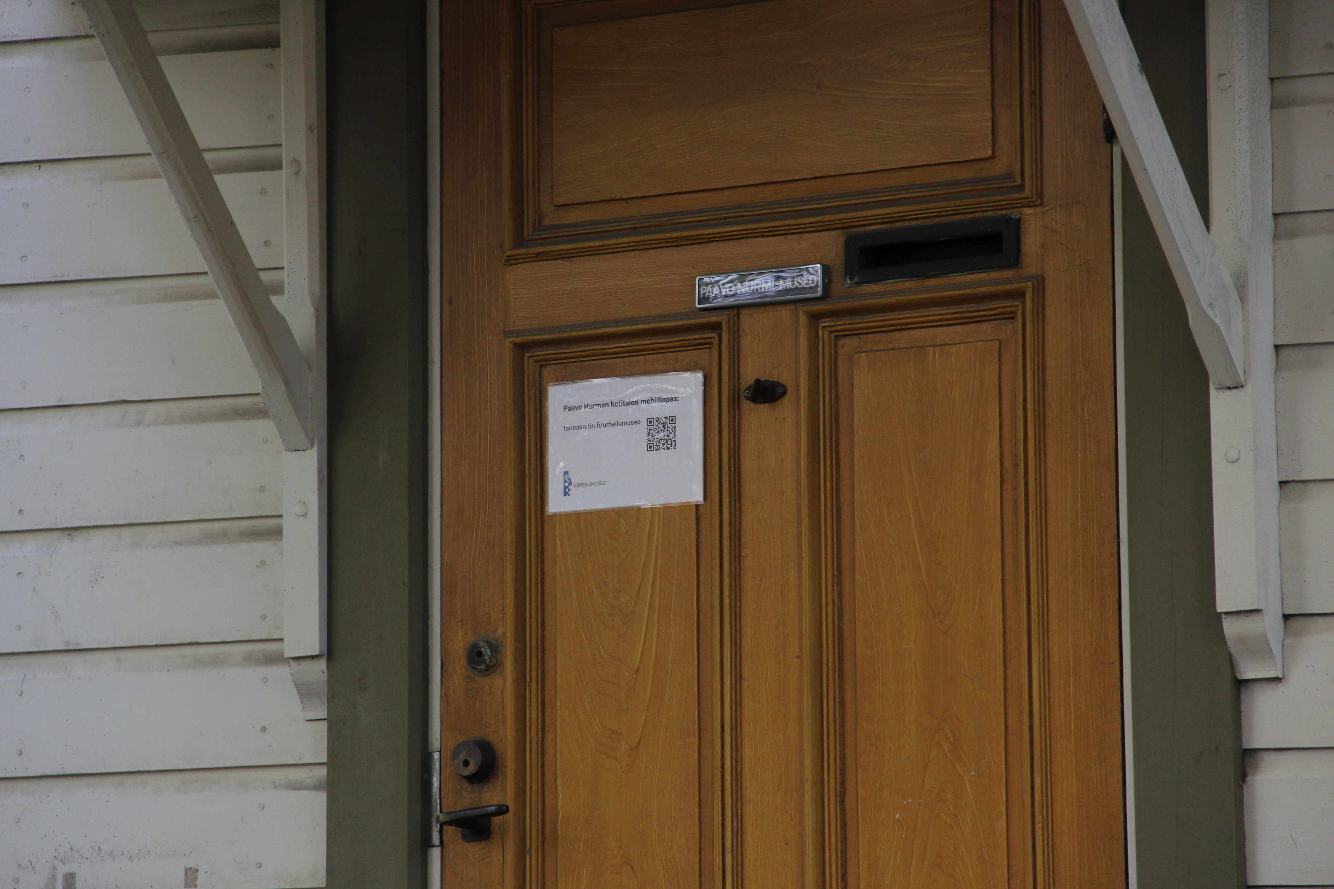 The front door to The Paavo Nurmi Museum, his home as a child, in Turku, Finland